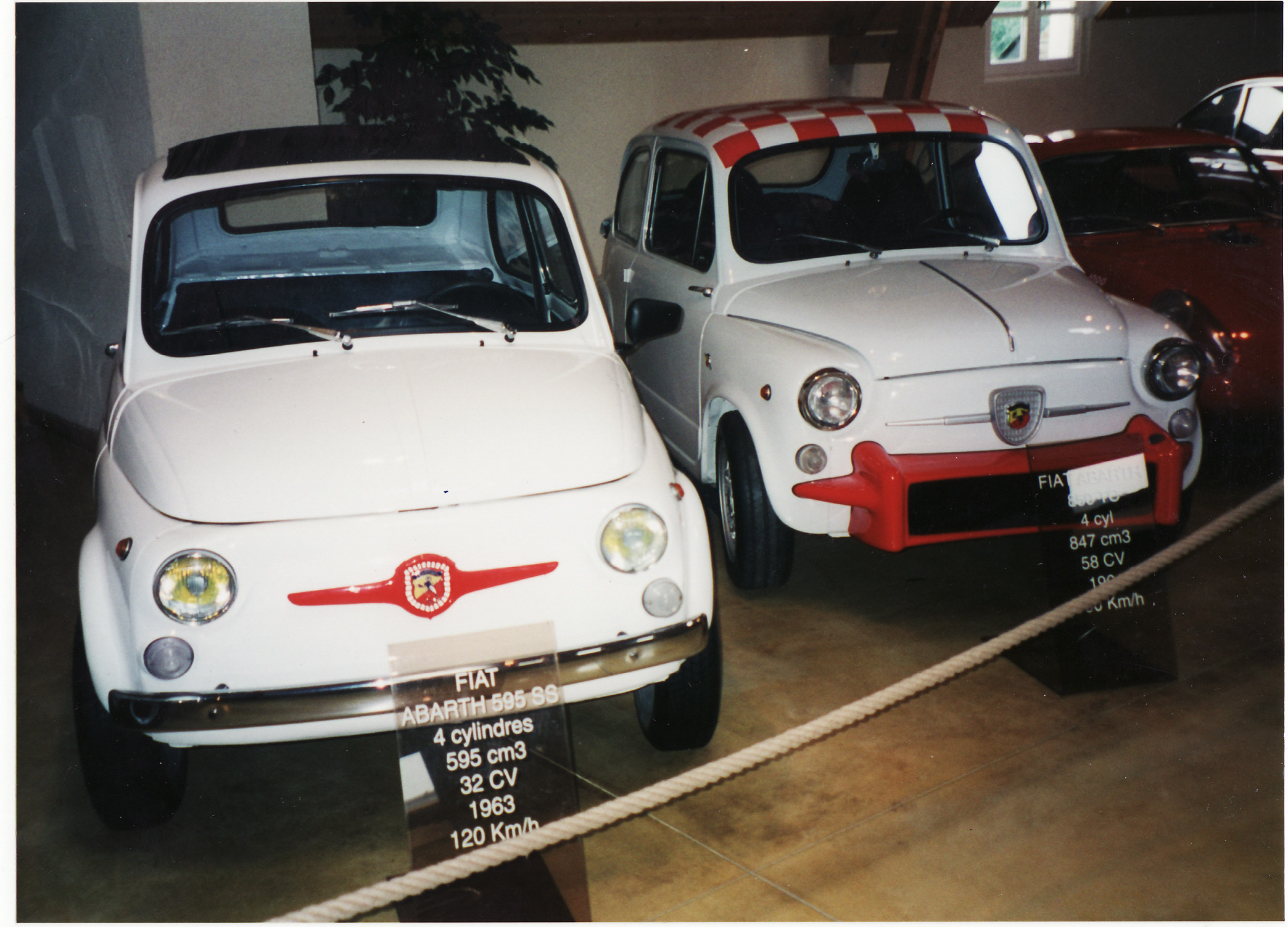 1963 Fiat Abarth 595 SS & 850 TC